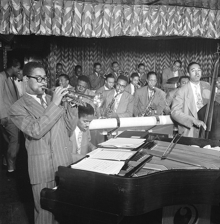 Portrait of Dizzy Gillespie, John Lewis, Cecil Payne, Miles Davis, and Ray Brown, Downbeat, New York, N.Y. (between 1946 and 1948) (photographed by William Gottlieb)